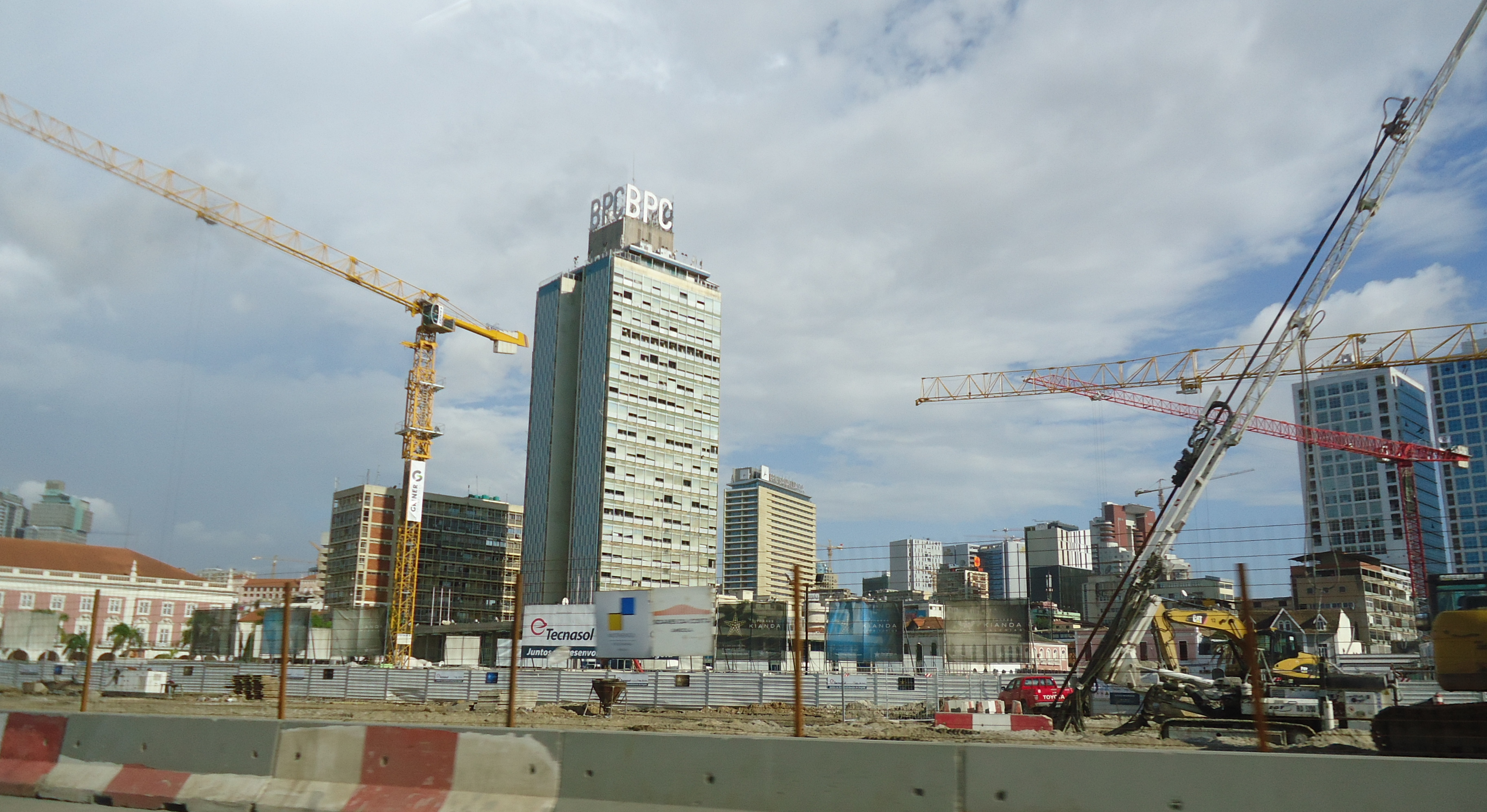 Marginal Avenida 4 de Fevreiro. Photo by Fabio Vanin, Luanda, 2013.